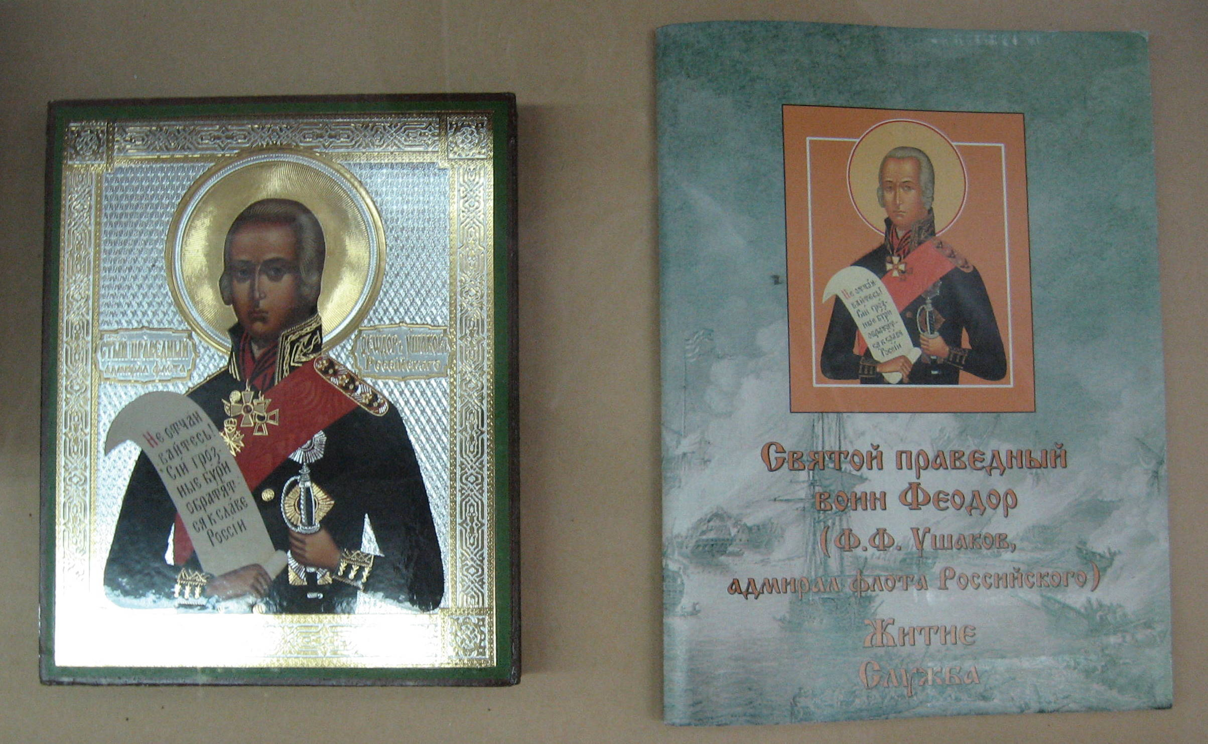 Icon and biography of Russian admiral Ushakov (canonized)